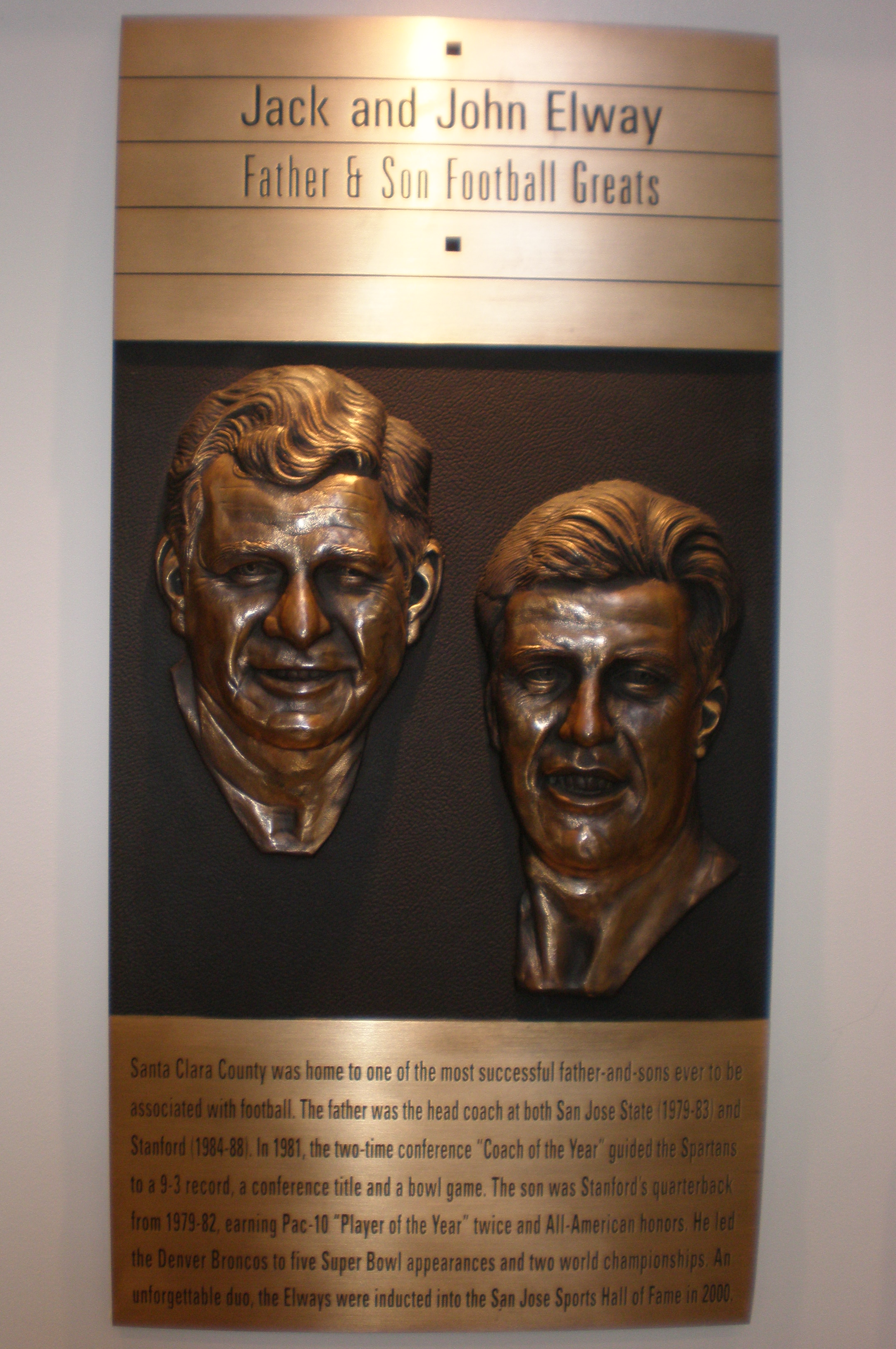 Jack and John Elway's plaque at the San Jose Sports Hall of Fame, displayed at HP Pavilion in San Jose, California.